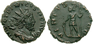 TETRICUS I. 271-274 AD. Antoninianus (18mm, 2.67 gm). Mint city I=Treveri (Trier). Struck 273/274 AD. IMP C TETRICVS P F AVG, radiate, draped, and cuirassed bust right VIRTVS AVGG, Virtus standing left, holding shield and spear. RIC V 148; AGK 14a; Cohen 207.